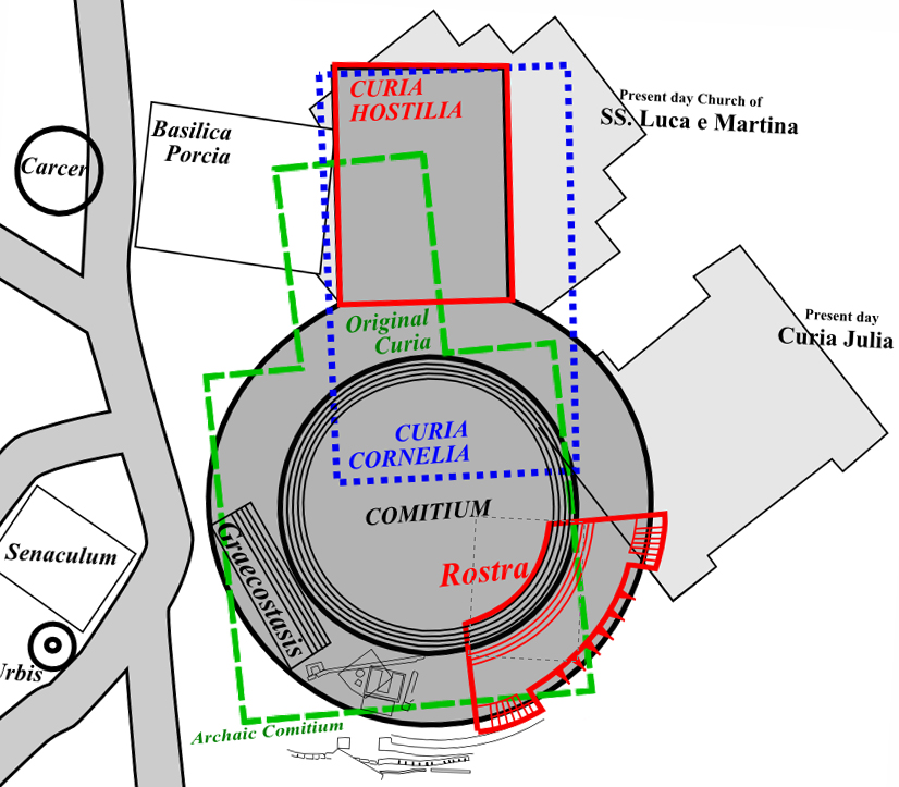 Layout of the Curia Hostilia, Comitium and Rostra with Lapis Niger